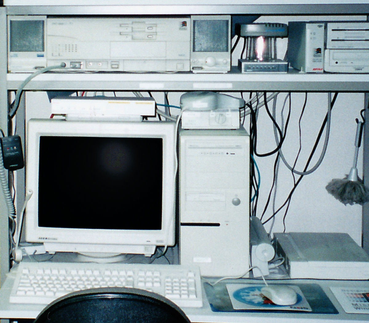 PC stored in a PC rack (1996)